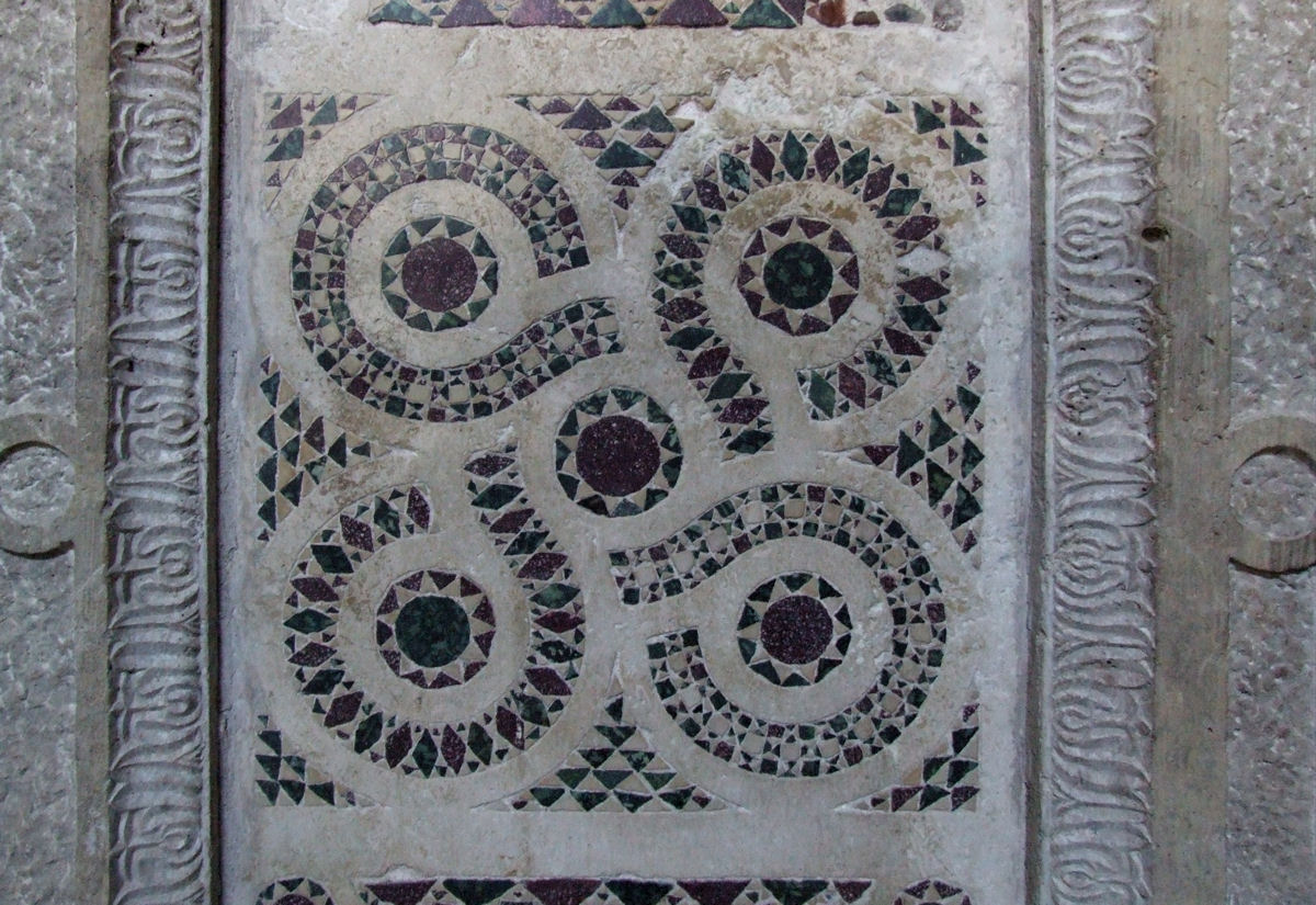 Santa Maria Assunta, Lugnano in Teverina, Italy - Cosmati flooring. Showing one of its quintessential designs, the Quincunx